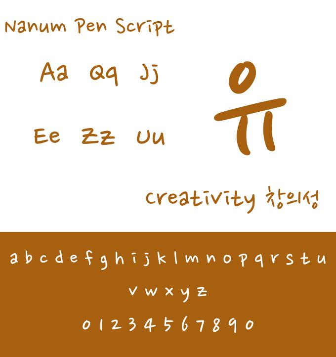 Sample of the Nanum Pen Script typeface.